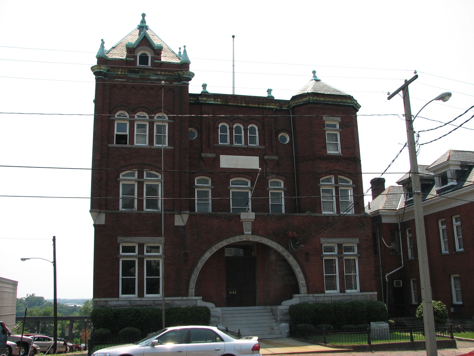 Old Henrico County, Virginia, Courthouse, 1898. Located at 2125 East Main St., Richmond, Virginia, on the corner of East Main and South 22nd streets.